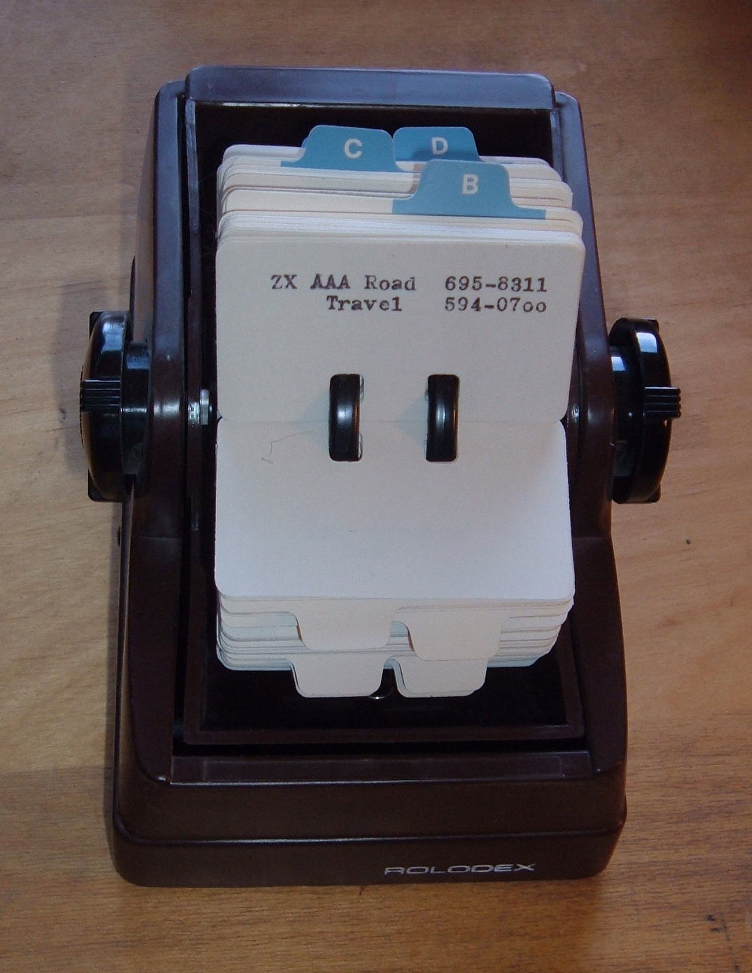 Rolodex card file. I took this picture of an object that was used by my father, Max Reinhold, in the 1970s. --agr 19:09, 30 December 2005 (UTC)